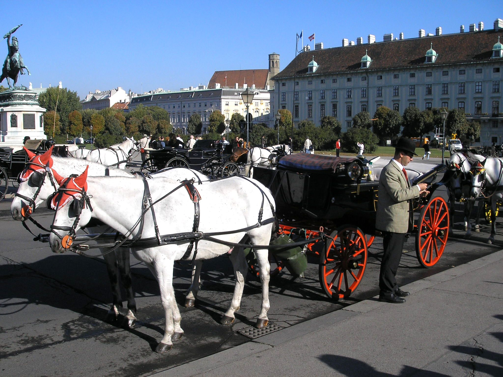 Austria, Vienna, Heldenplatz